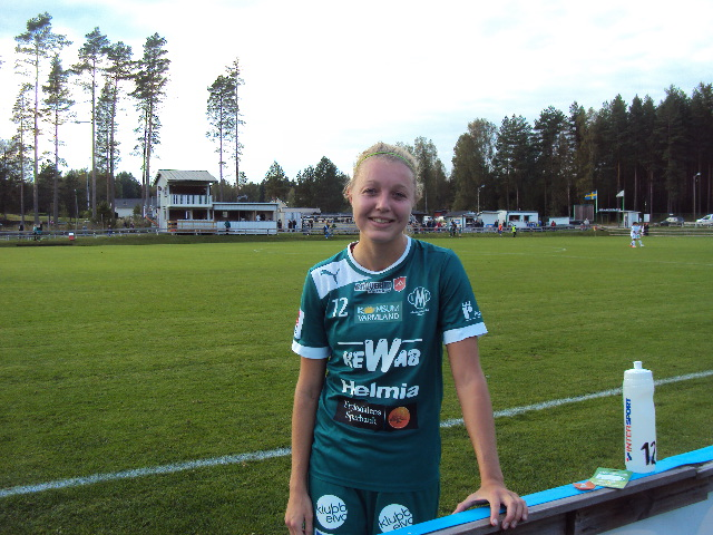 Maruschka Waldus at the Mallbacken Stadium in september 2015 homegame against Pitea